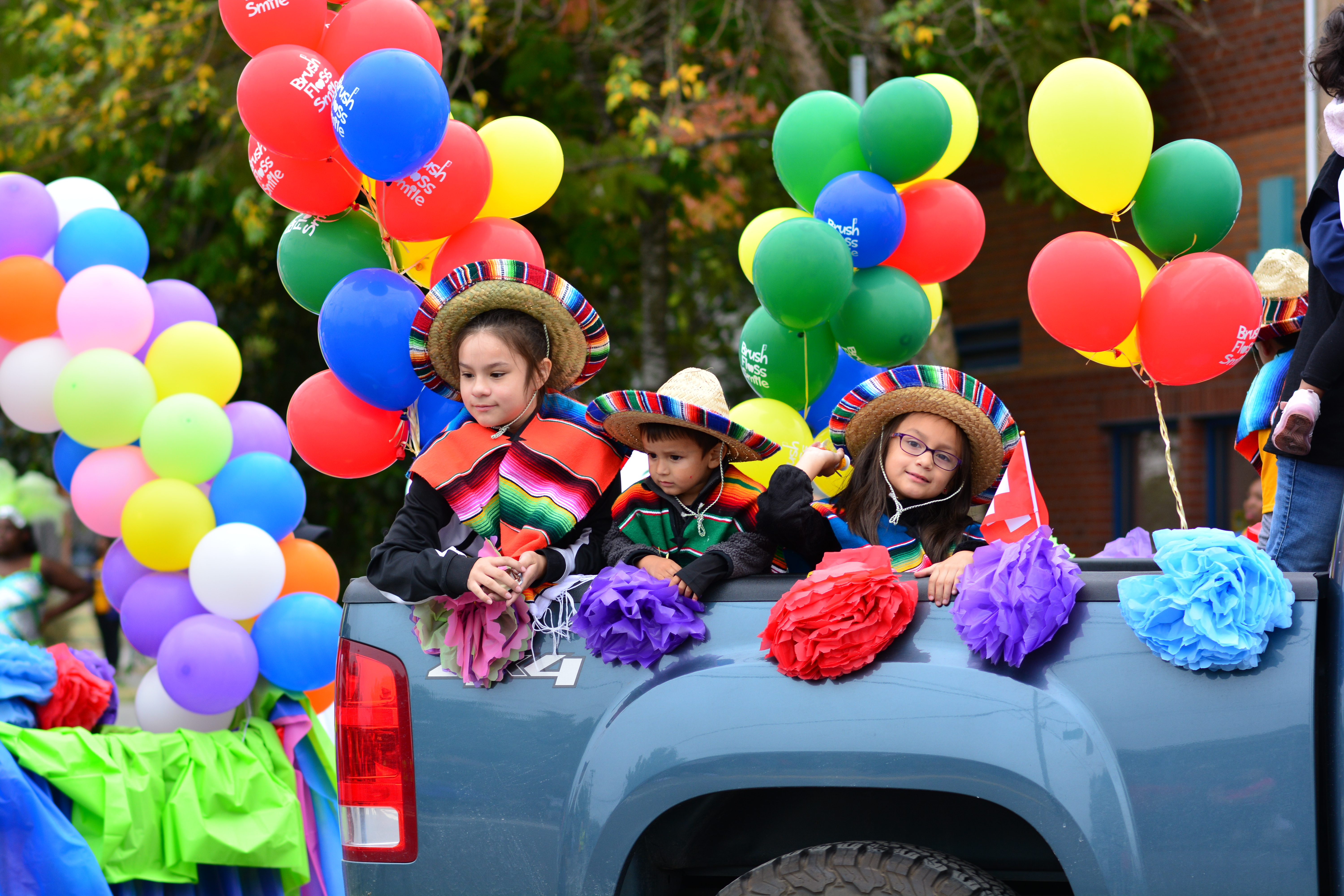 Sea Mar Dental Clinics contingent, 2019 Fiestas Patrias Parade, South Park, Seattle, Washington, U.S.